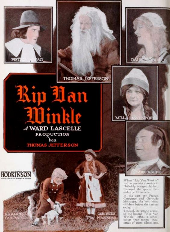 Advertisement for the American fantasy film Rip Van Winkle (1921) with Pietro Sosso, Thomas Jefferson, Daisy Jefferson (credited as Daisy Robinson), Milla Davenport, Max Asher, Francis Carpenter, and Gertrude Messinger, from the insert after page 10 of the October 15, 1921 Exhibitors Herald.